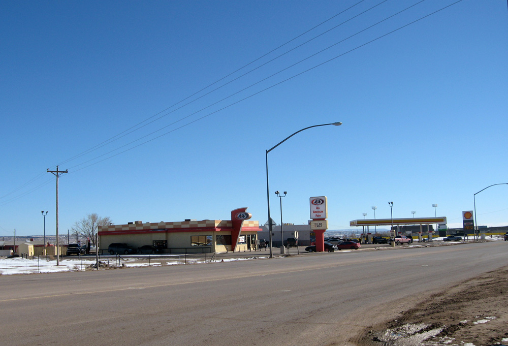 A&W located in Chinle, AZ.